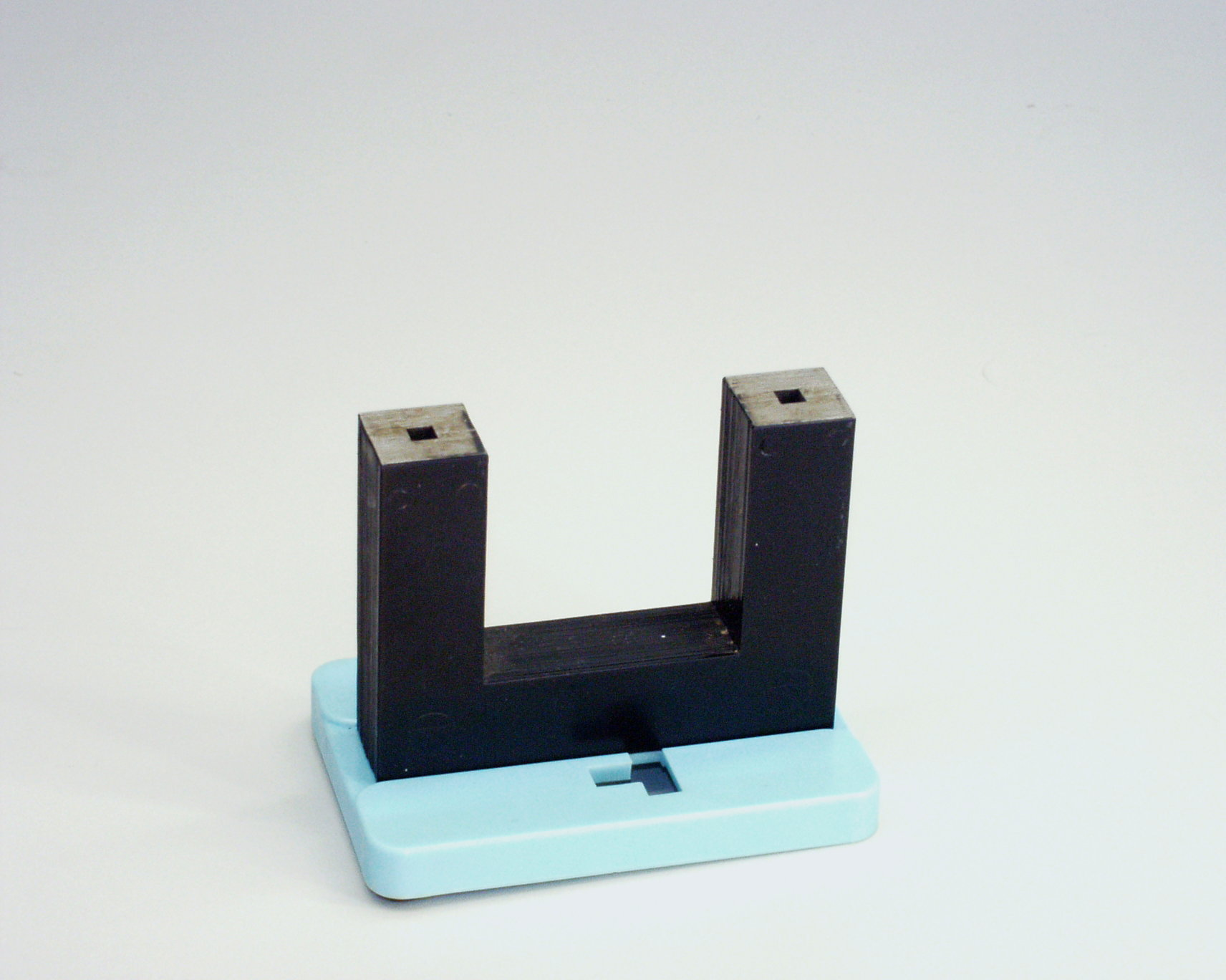 Demountable transformer (1.)